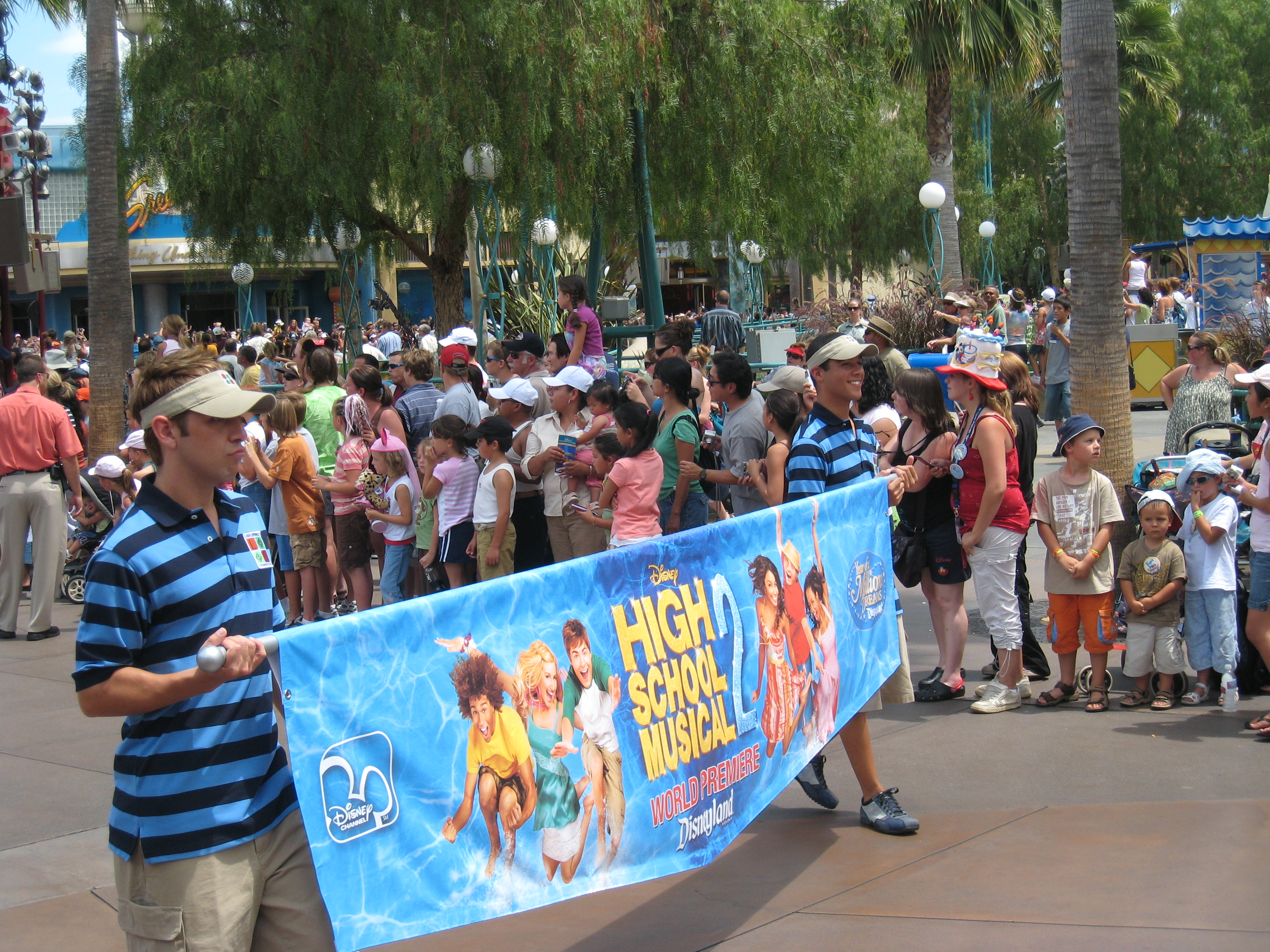 High School Musical 2 premier. Parade held at the California Adventure theme park marking the premier of the show at the Downtown Disney cinema.